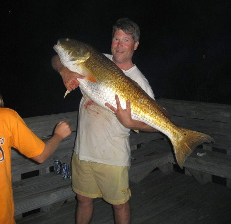 A 55" 65lbs Red Drum